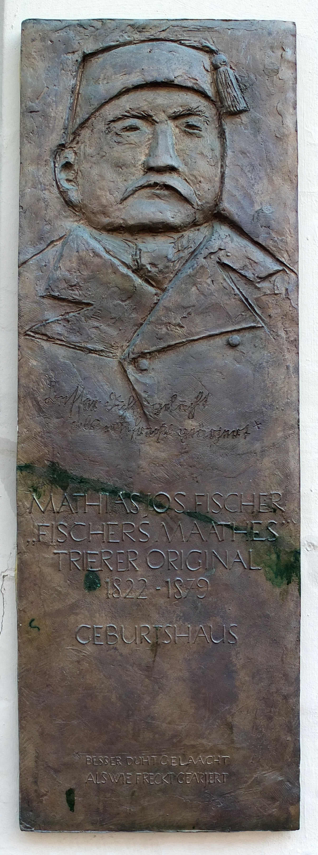 Commemorative plaque for Fischers Maathes at his birth place: Trier (Germany), Brotstraße 26.